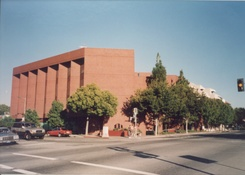 The Systems Research Center of Digital Equipment Corporation, located at 130 Lytton Avenue, Palo Alto, CA. Photo taken Mar/1997 by Jorge Stolfi.